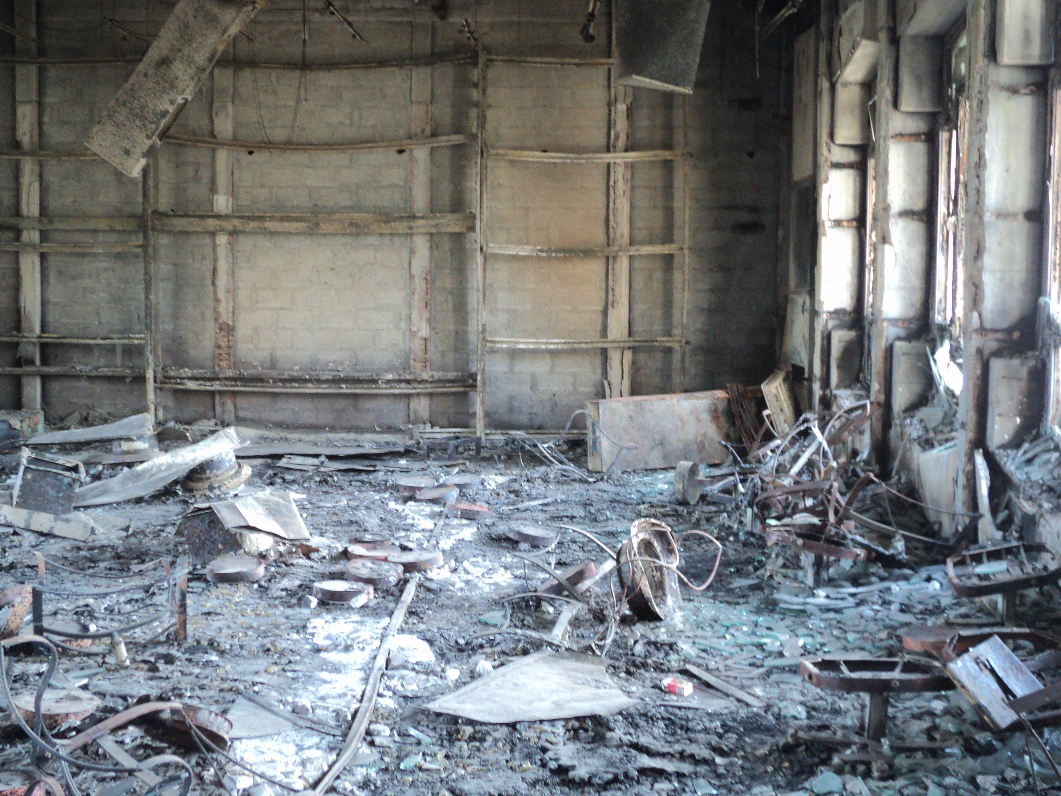 Inside al Fadeel compound, Benghazi, Libya.